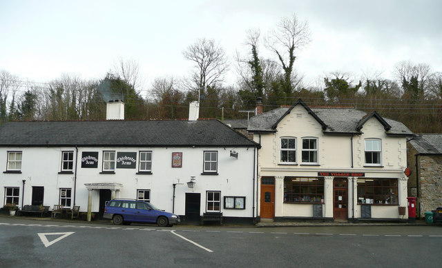 Village pub and shop Two key elements for the well-being of a rural community like Chillaton; the Chichester Arms next to the village shop and post office.